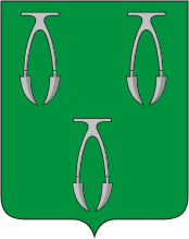 Efremov (Tula oblast), coat of arms